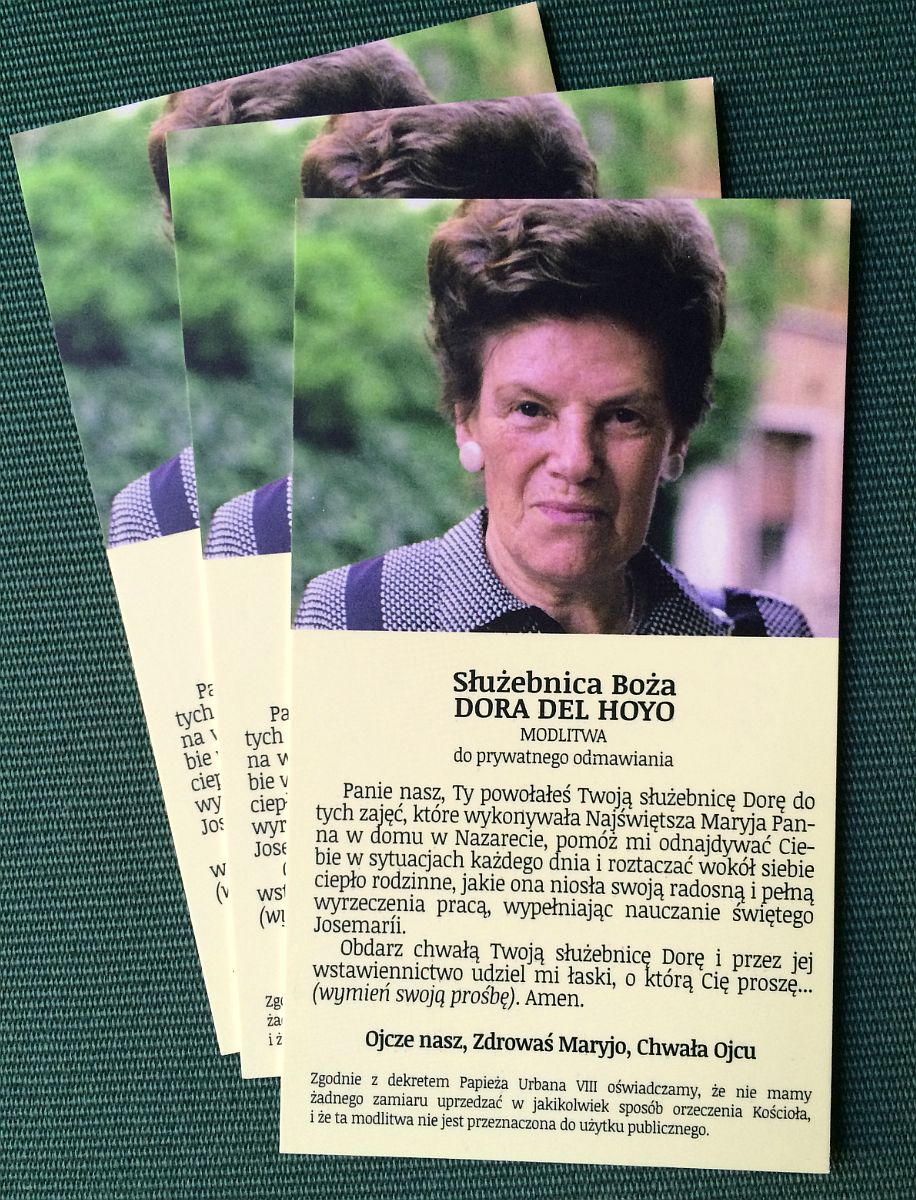 Dora del Hoyo prayer cards in Polish